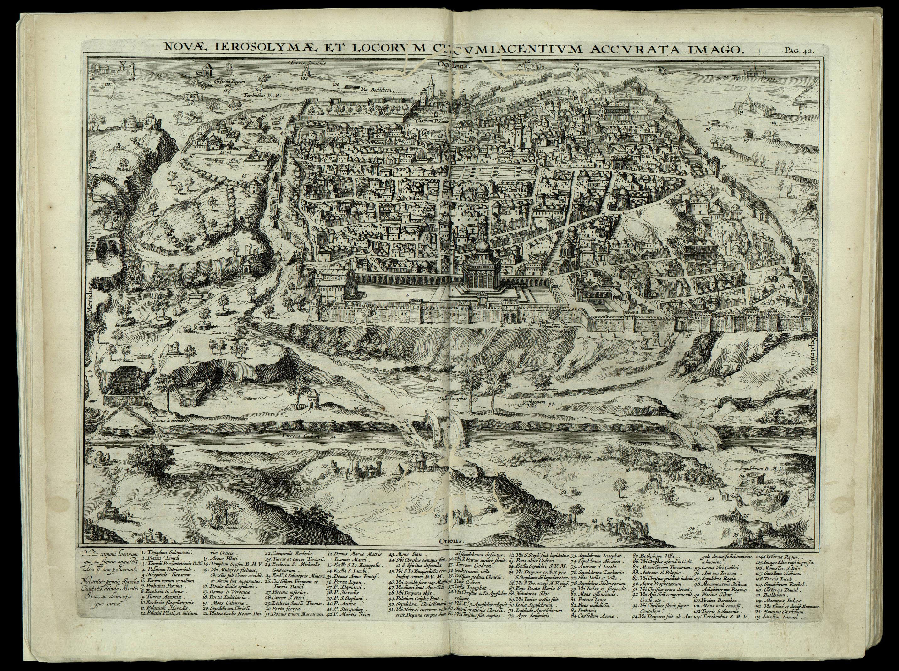 An accurate view of modern Jerusalem and its surroundings by Quaresmius, 1639.